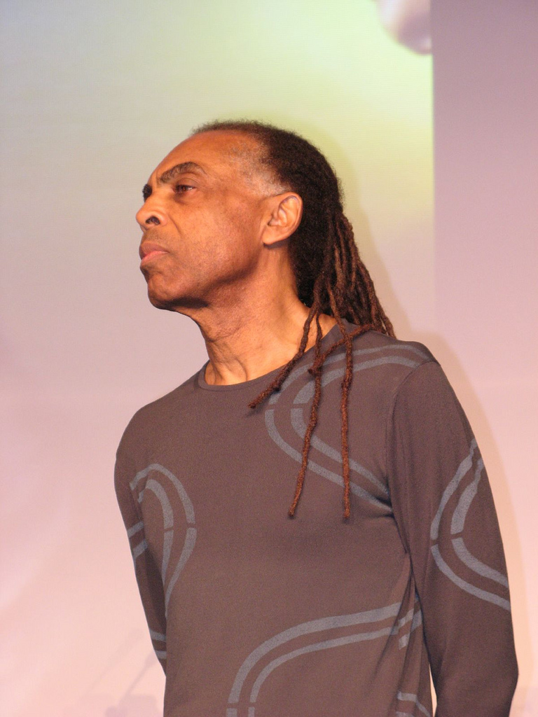 Gilberto Gil at Campus Party, Brazil.